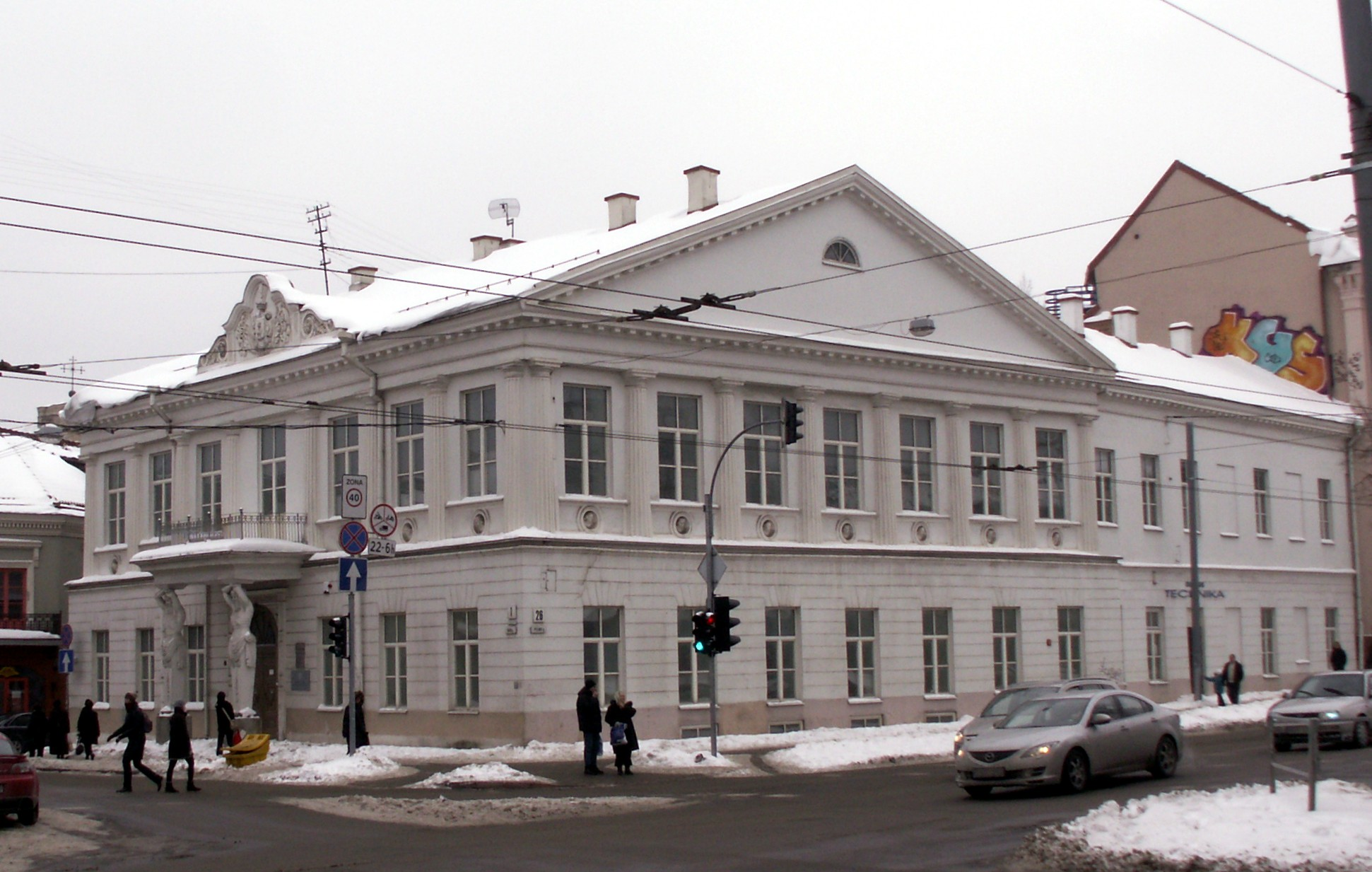 Tyszkiewicz Palace in Vilnius, Lithuania